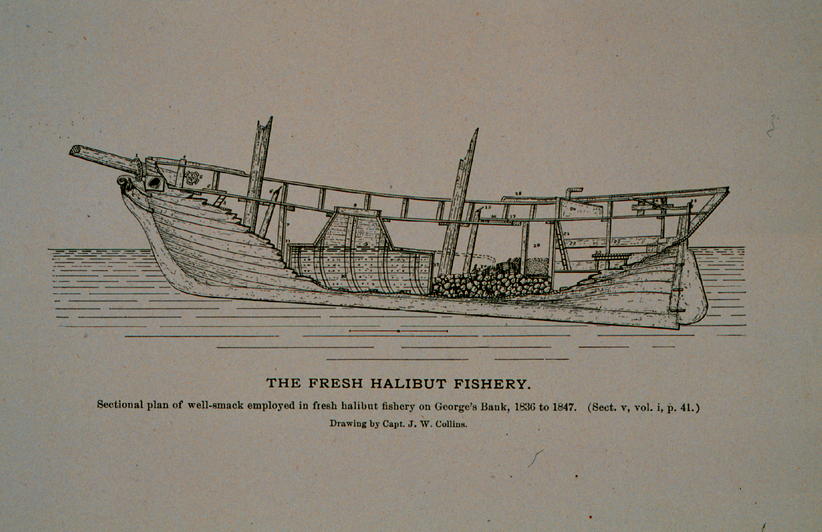 Sectional plan of well-smack employed in the fresh halibut fishery As used on George's Bank 1836 to 1845 Drawing by Capt. J.W. Collins. Image ID: figb0005, NOAA's Historic Fisheries Collection Credit: NOAA National Marine Fisheries Service